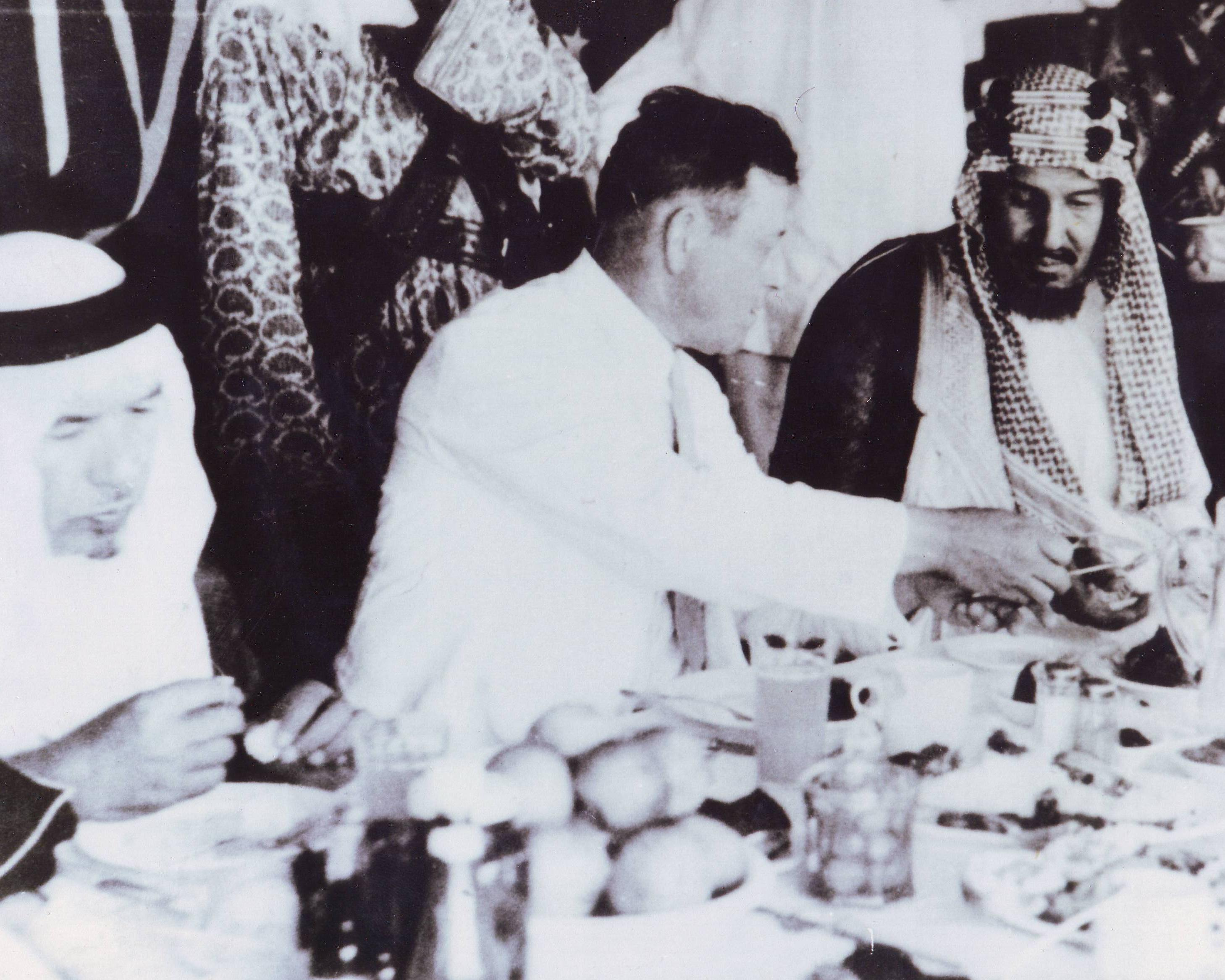 From right to left: King Abdulaziz, the US-Petrolminister, Khaled Al Hakeem (first Royal advisor) 1934